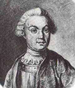 Joseph Freiherr von Petrasch (czech: Josef Petráš) was a Croatian born, Austrian scholar who in 1746 founded the Societas incognitorum - an circle of scientist during the period of the Enlightment - in Olomouc, Moravia. He lived from 1714 until 1772.